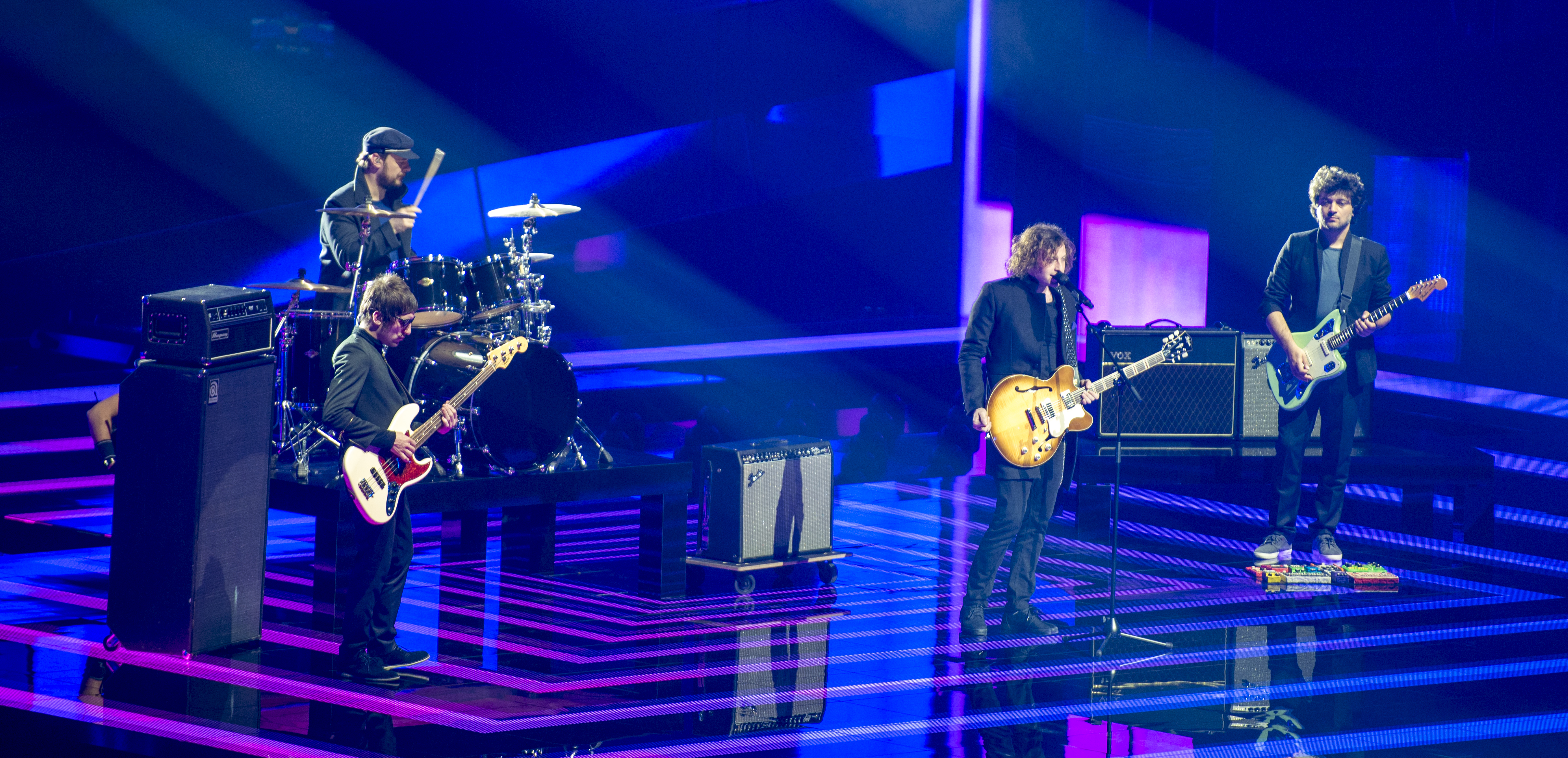 Nika Kocharov & Young Georgian Lolitaz representing Georgia with the song "Midnight Gold" during a rehearsal before the second semi final of the Eurovision Song Contest 2016 in Stockholm. (Help translate this text)